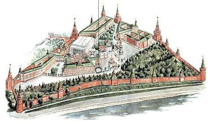 Overview map of the Moscow Kremlin. Location of The Cathedral of the Annunciation marked.